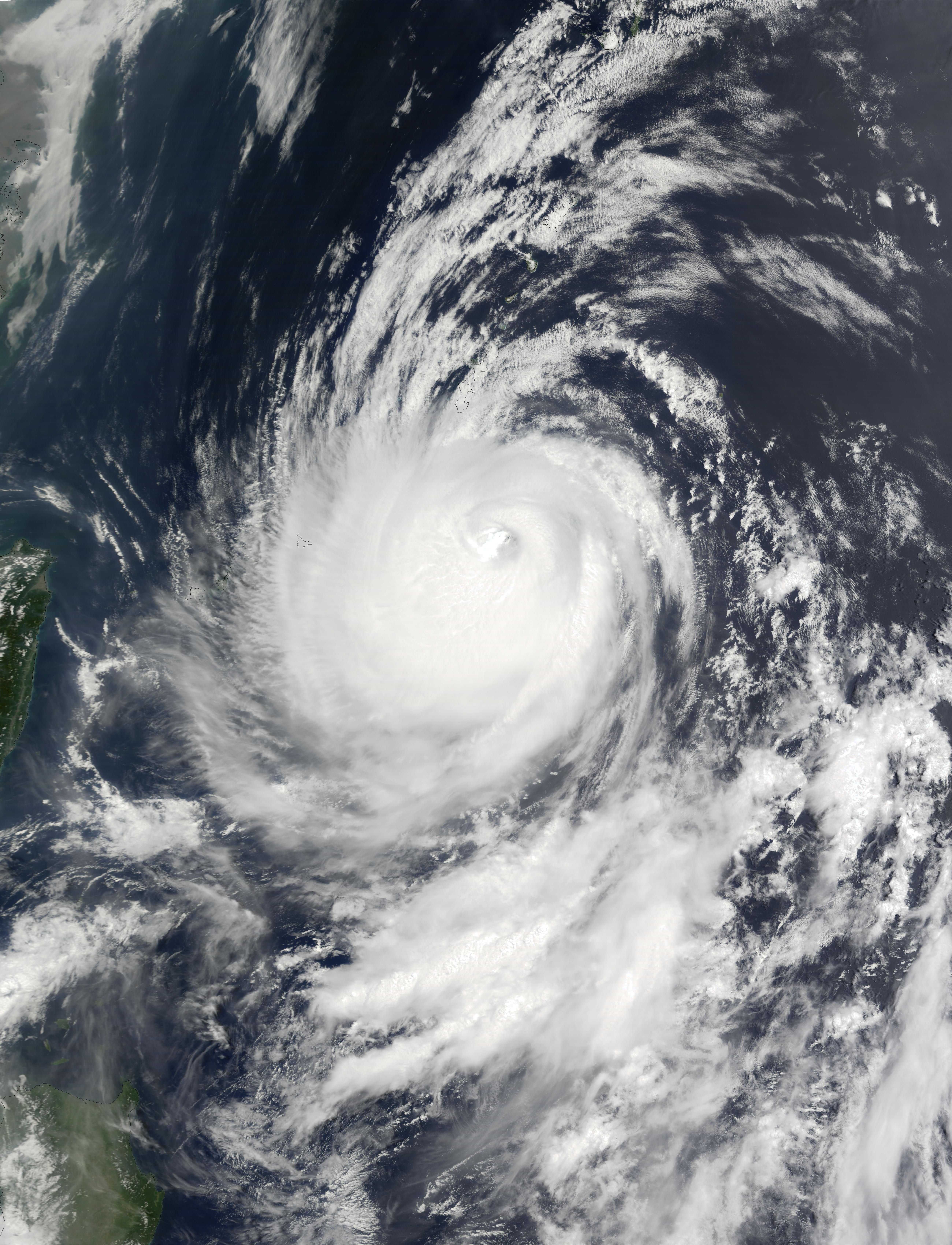 On July 14, 2002, Super Typhoon Halong was east of Taiwan (left edge) in the western Pacific Ocean. At the time this image was taken the storm was a Category 4 hurricane, with maximum sustained winds of 115 knots (132 miles per hour), but as recently as July 12, winds were at 135 knots (155 miles per hour). Halong has moved northwards and pounded Okinawa, Japan, with heavy rain and high winds, just days after tropical Storm Chataan hit the country, creating flooding and killing several people. The storm is expected to be a continuing threat on Monday and Tuesday. This image was acquired by the Moderate Resolution Imaging Spectroradiometer (MODIS) on the Terra satellite on July 14, 2002.